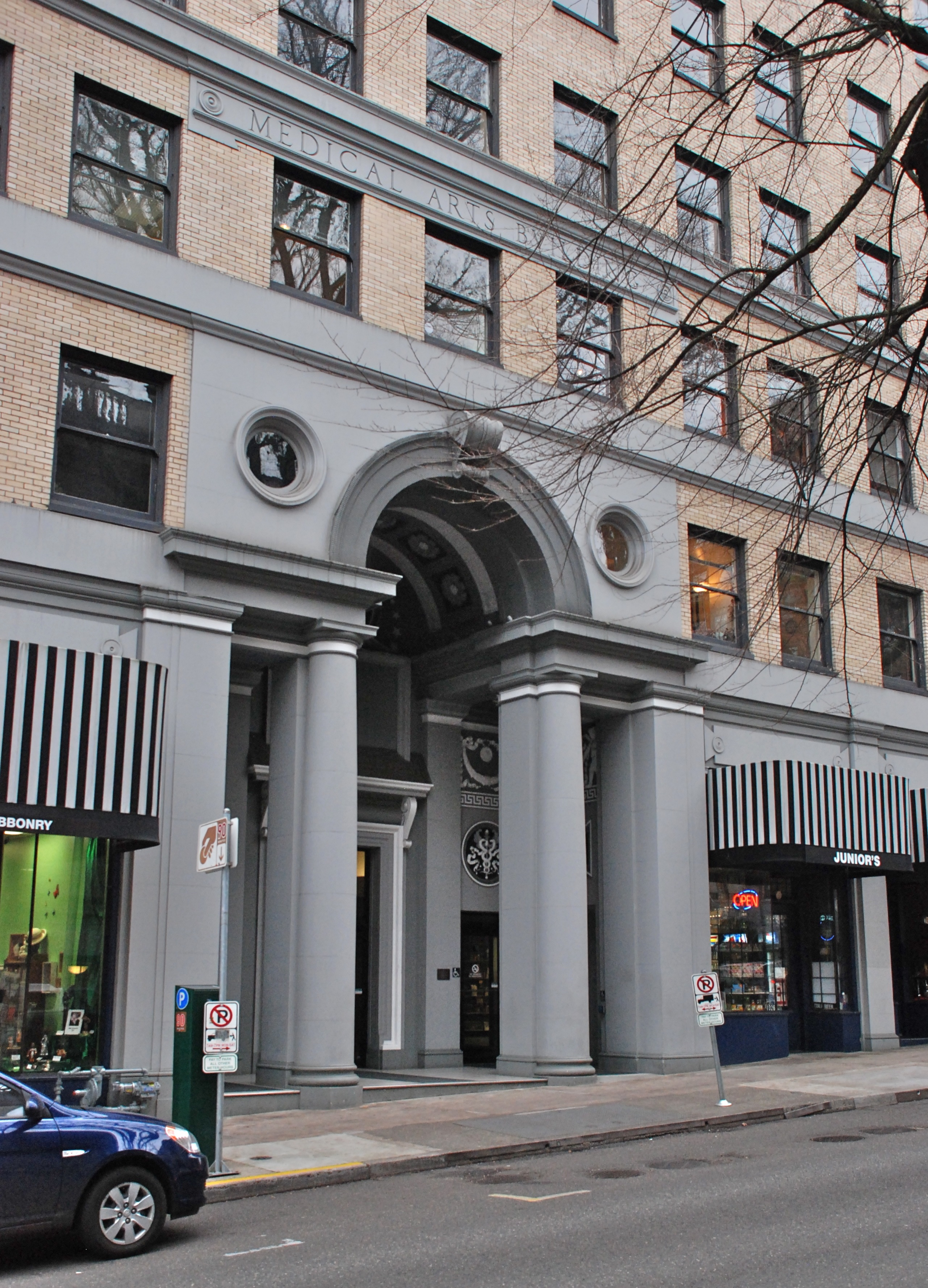 The Medical Arts Building (built in 1924–25), in downtown Portland, Oregon, is listed on the U.S. National Register of Historic Places. It is located on south side of Taylor Street, extending from 10th Avenue to 11th Avenue. This is the main entrance, on Taylor Street, with the building's name in terracotta above.